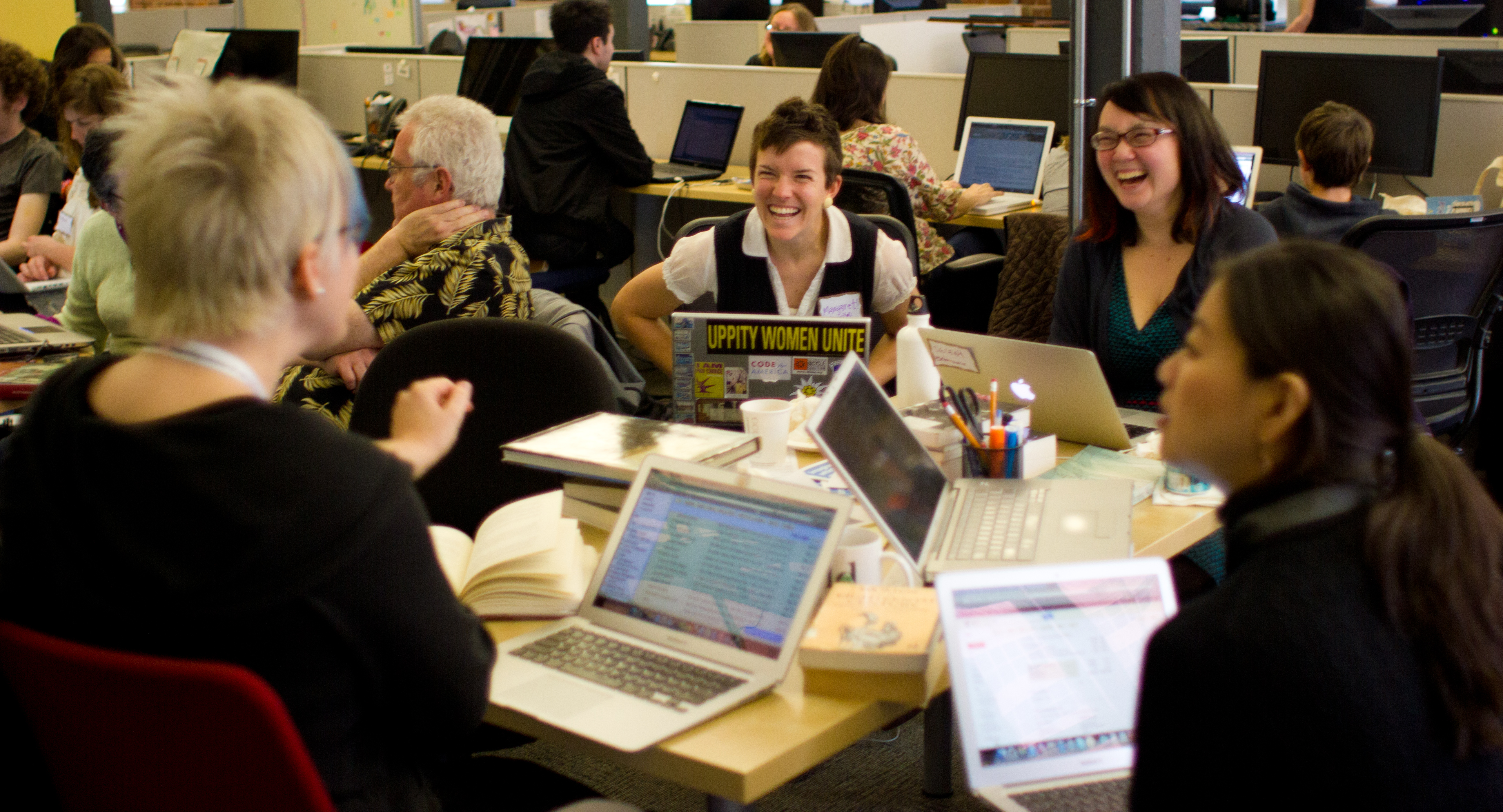 The Women's History Month Wikipedia edit-a-thon, hosted at the Wikimedia Foundation offices in San Francisco.